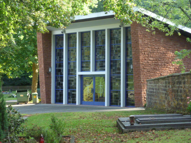 Chapel at the Friedhof Ludwigsthal